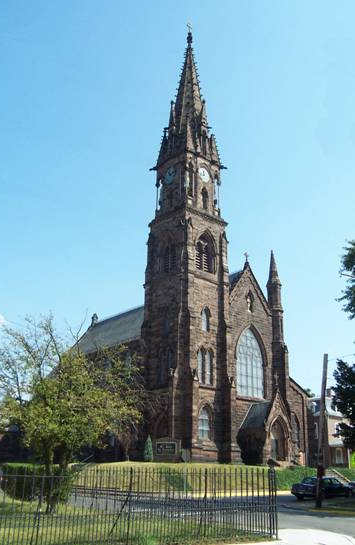 Completed 1881